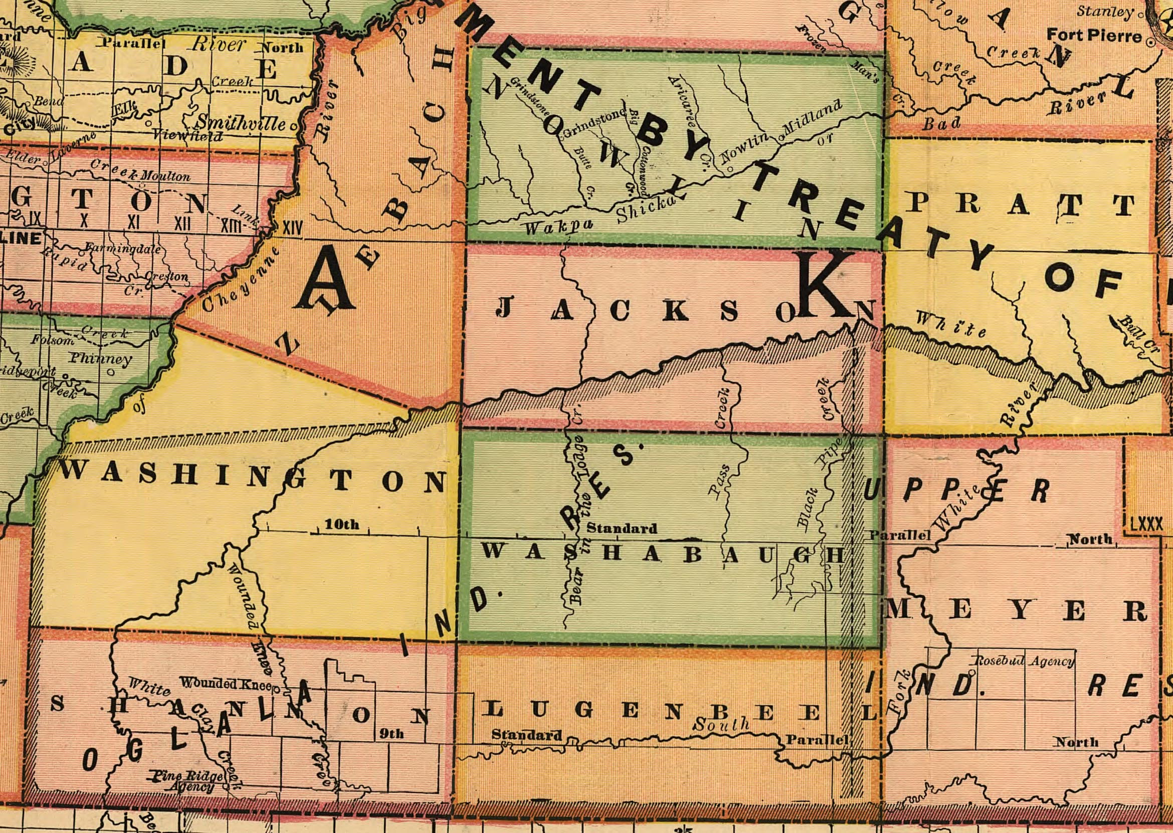 Wabashaugh County, South Dakota (1892) showing neighboring counties, towns, and villages